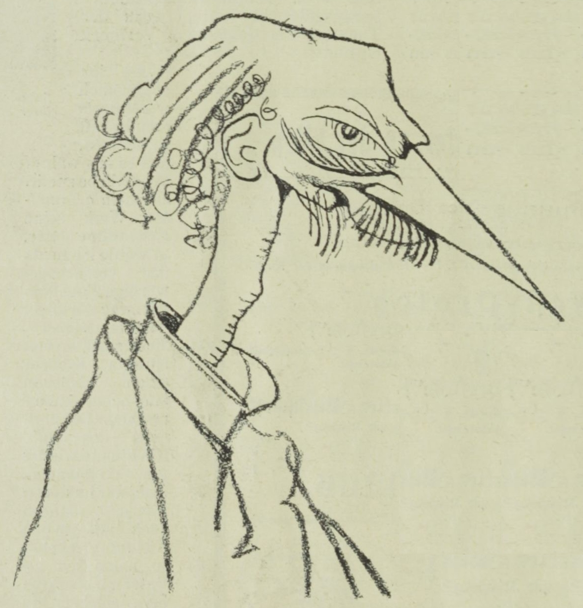 Paul Stefan (1879–1943), Austrian musicologist, music historian, writer and music critic.